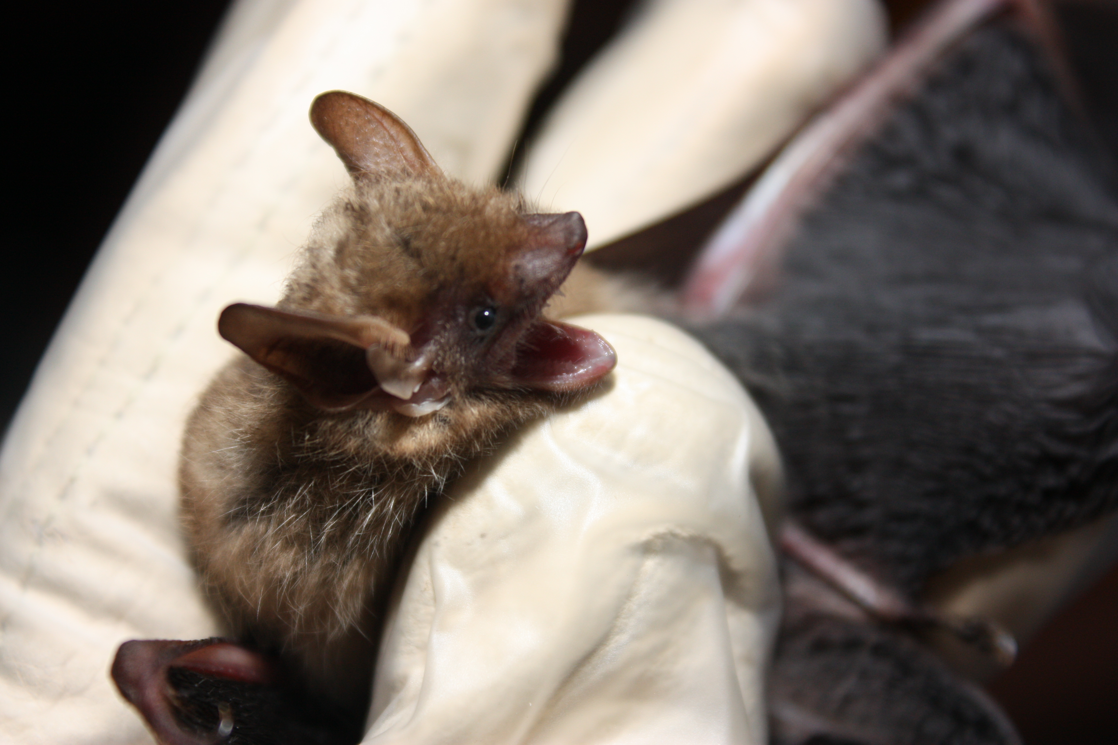 Credit: Gary Peeples/USFWS